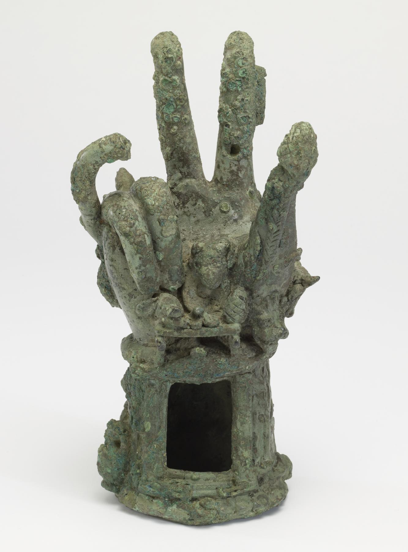 Many religions were syncretistic, meaning that as they grew and came into contact with other religions, they adopted new beliefs and modified their practices to reflect their changing environment. Both Greek and Roman religious beliefs were deeply influenced by the so-called mystery religions of the East, including the Egyptian cult of Isis, which revealed beliefs and practices to the initiated that remained unexplained, or mysterious, to the uninitiated. Most popular Roman cults had associations with these mystery religions and included the prospect of an afterlife. Sabazius was an eastern god of fertility and vegetation, who in Roman times was worshiped in association with other deities, particularly Dionysus (or Bacchus, as he was generally known to the Romans). His cult inspired a series of votive images of hands, the fingers of which form the gesture of benediction still familiar in Christian practice. Missing from this example is the small figure of Sabazius himself, who was typically seated in the palm of the hand above the ram's head. Around him are his major cult symbols, including a snake, a lizard, and the heads of a lion, a ram, and a bull. On the tip of the thumb is the pinecone of Dionysus. The opening in the wrist, shaped like a temple, had a hinged door that revealed an unknown, lost object, perhaps a reclining mother and child, as seen in other examples.